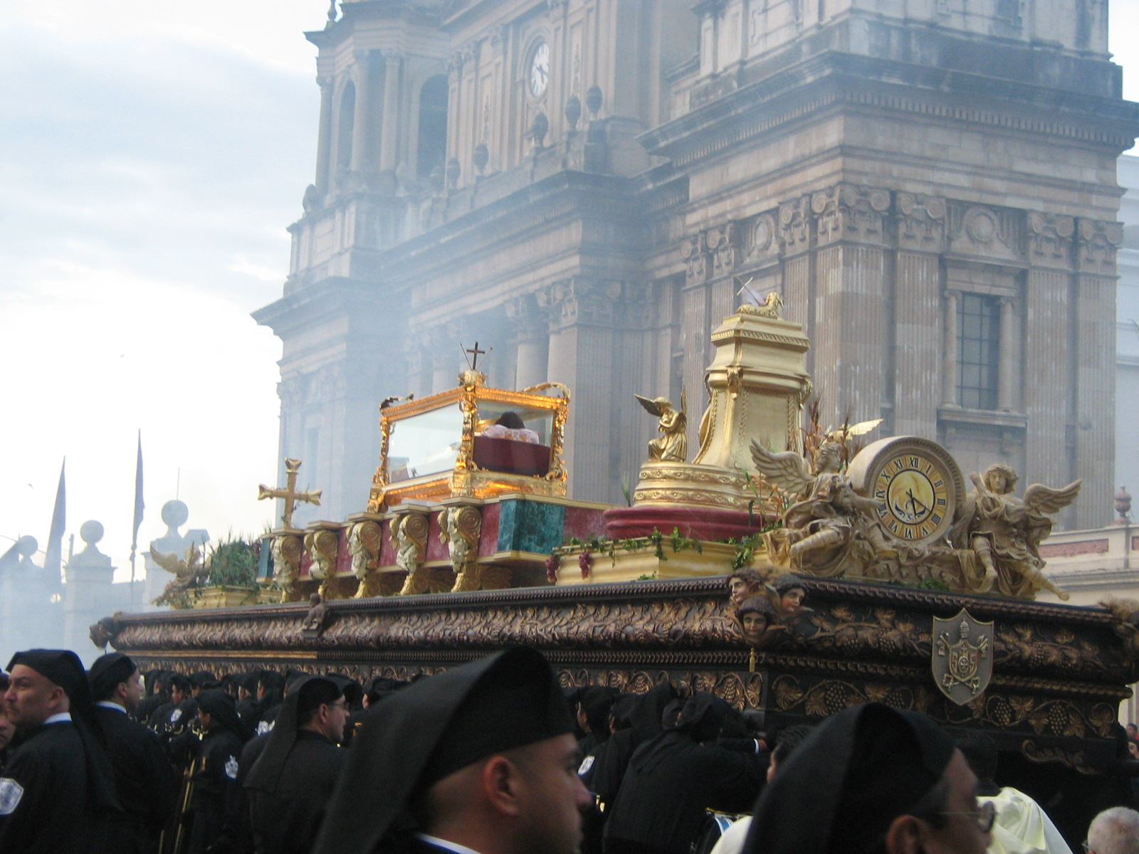 PROCESSION OF THE BURIED LORD, Good Friday GUATEMALA CITY, TEMPLE OF SANTO DOMINGO 2007